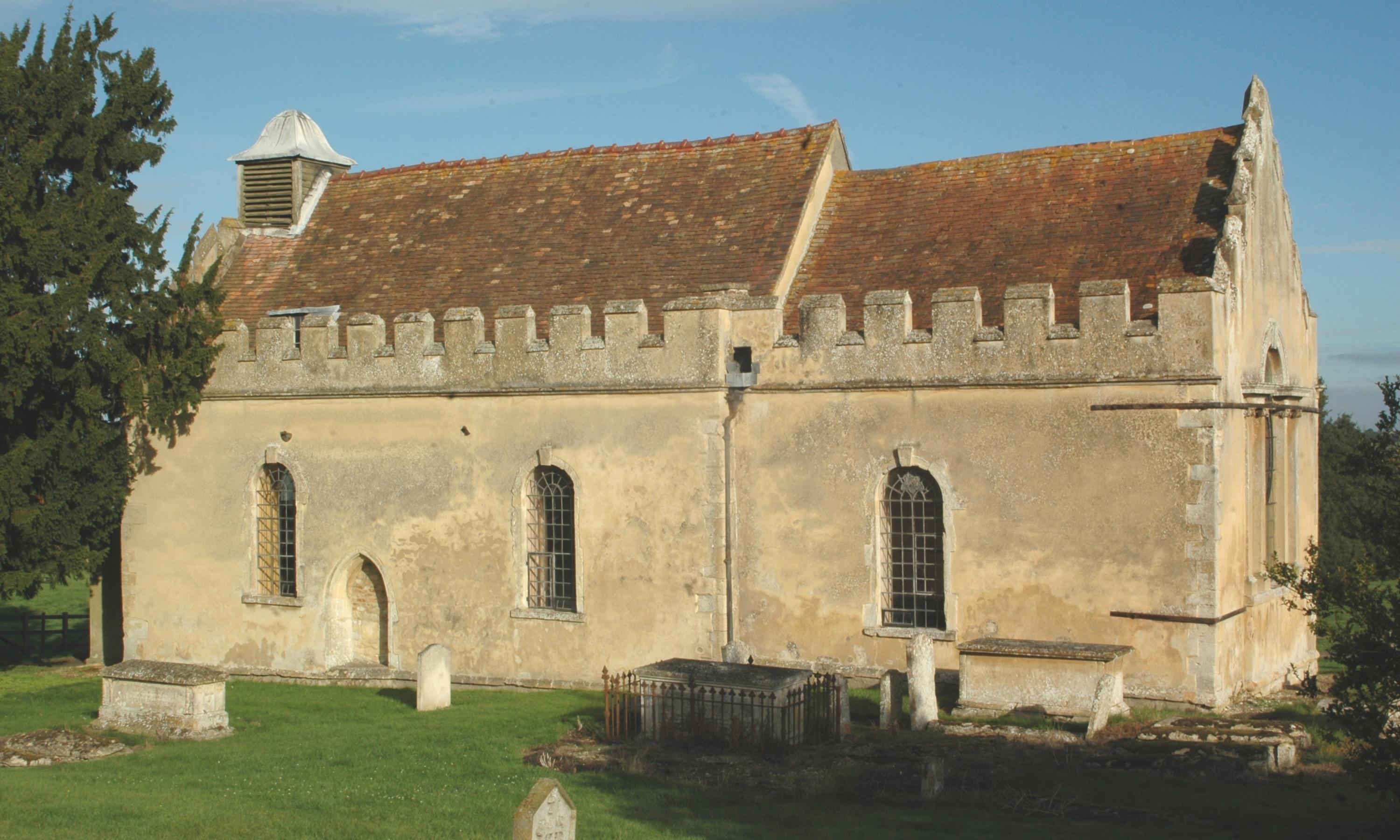 Church of England parish church of Saint Andrew, Wheatfield, Oxfordshire, seen from the south.